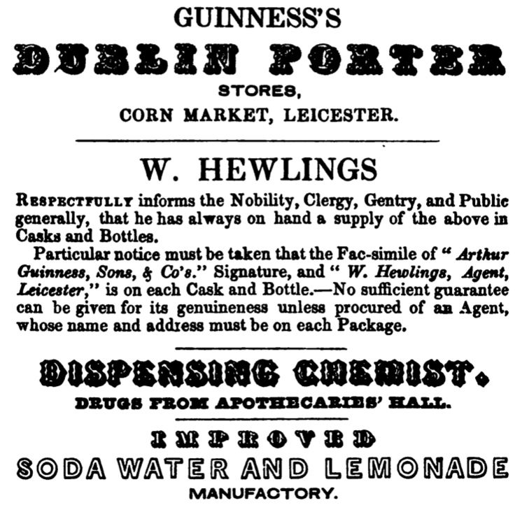 Guinness's Dublin Porter Stores, Leicester from the Midland Counties' Railway Companion 1840.